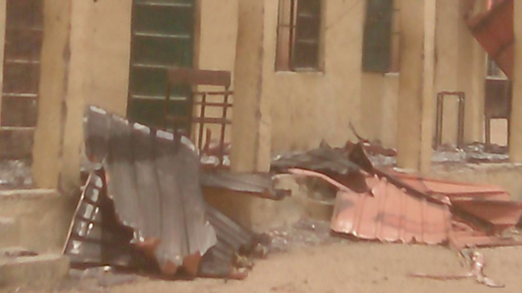 Destruction photographed by the VOA, after the Chibok kindap in April 2014.